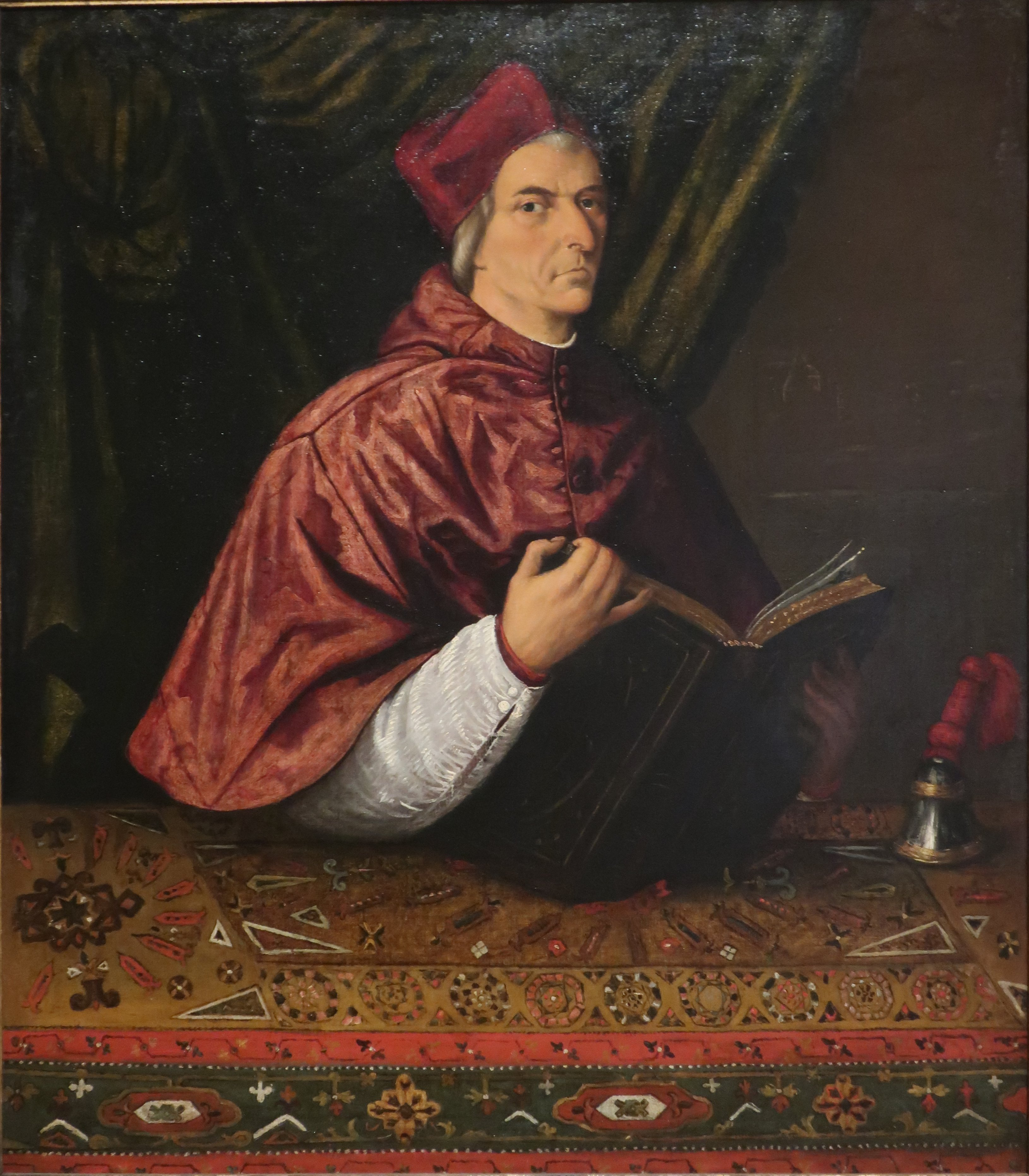 Portrait of Cardinal Domenico Grimani by Lorenzo Lotto, oil on canvas, Schorr Collection